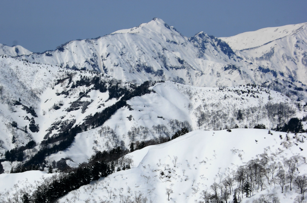 Mount Oizuru from Mount Notanishoji